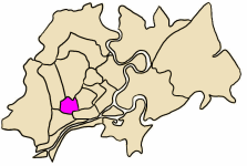 position of district 11 in an outline of the core area of HCMC (Ho Chi Minh City, Vietnam) - ISO code VN-F-HC. Keywords: map, outline, city, Ho Chi Minh City, HCMC, HCM, district 11, quan 11.